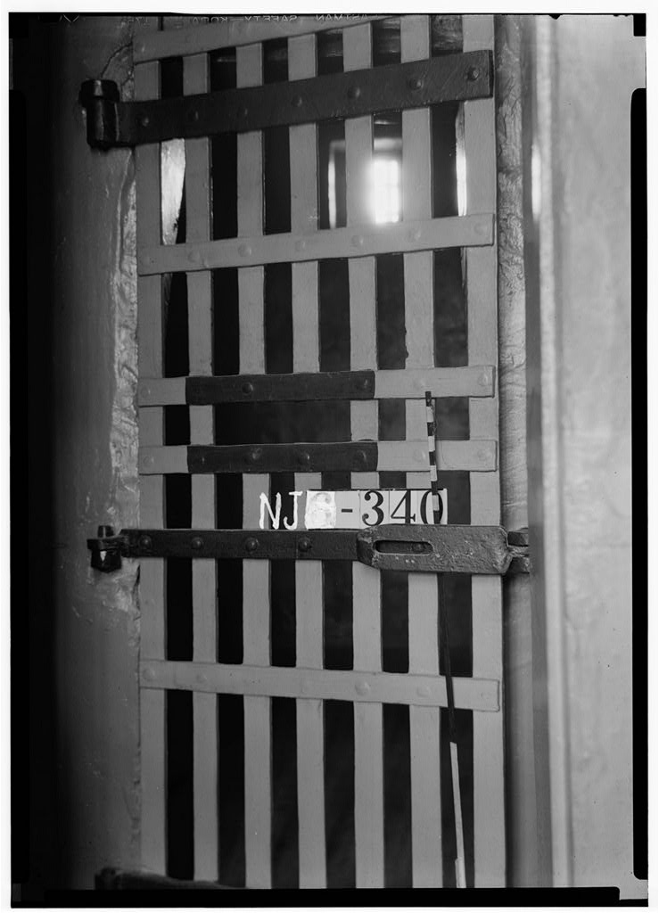 Title: Burlington County Prison, 128 High Street, Mount Holly, Burlington, NJ * Creator(s): Historic American Buildings Survey, creator * Related Names: Mills, Robert * Medium: Measured Drawing(s): 24(18 x 24 in.) Photo(s): 7 (5 x 7 in.) Data Page(s): 12 plus cover page * Reproduction Number: [See Call Number] * Call Number: HABS NJ,3-MOUHO,8- * Repository: Library of Congress, Prints and Photographs Division, Washington, D.C. 20540 USA * Notes: o Survey number HABS NJ-340 o Unprocessed field note material exists for this structure (FN-191). o Building/structure dates: 1810 initial construction o National Register of Historic Places NRIS Number: 86003558 * Subjects: o prisons o prison reform o NEW JERSEY--Burlington--Mount Holly * Collections: o Historic American Buildings Survey/Historic American Engineering Record/Historic American Landscapes Survey * Part of: Historic American Buildings Survey (Library of Congress) * Contents: Photograph caption(s) 1. Historic American Buildings Survey Nathaniel R. Ewan, Photographer March 15, 1936 EXTERIOR - SOUTHEAST ELEVATION 2. Historic American Buildings Survey Nathaniel R. Ewan, Photographer March 3, 1937 EXTERIOR - WEST ELEVATION 3. Historic American Buildings Survey Nathaniel R. Ewan, Photographer March 3, 1937 EXTERIOR - MAIN ENTRANCE 4. Historic American Buildings Survey Nathaniel R. Ewan, Photographer March 3, 1937 EXTERIOR - DETAIL STEPS AND DOOR - WEST ELEVATION 5. Historic American Buildings Survey Nathaniel R. Ewan, Photographer March 3, 1937 INTERIOR - MAIN DOOR WITH ORIGINAL HARDWARE 6. Historic American Buildings Survey Nathaniel R. Ewan, Photographer March 3, 1937 INTERIOR - MURDERER'S CELL - SECOND FLOOR 7. Historic American Buildings Survey, Taken from drawing sheet * Bookmark This Record